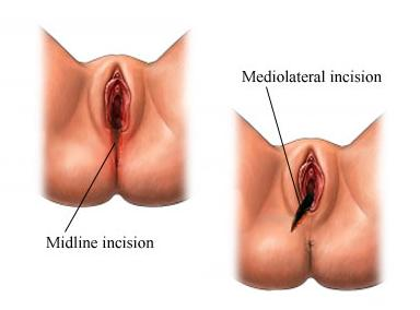 A picture of what occurs to the vagina during childbirth